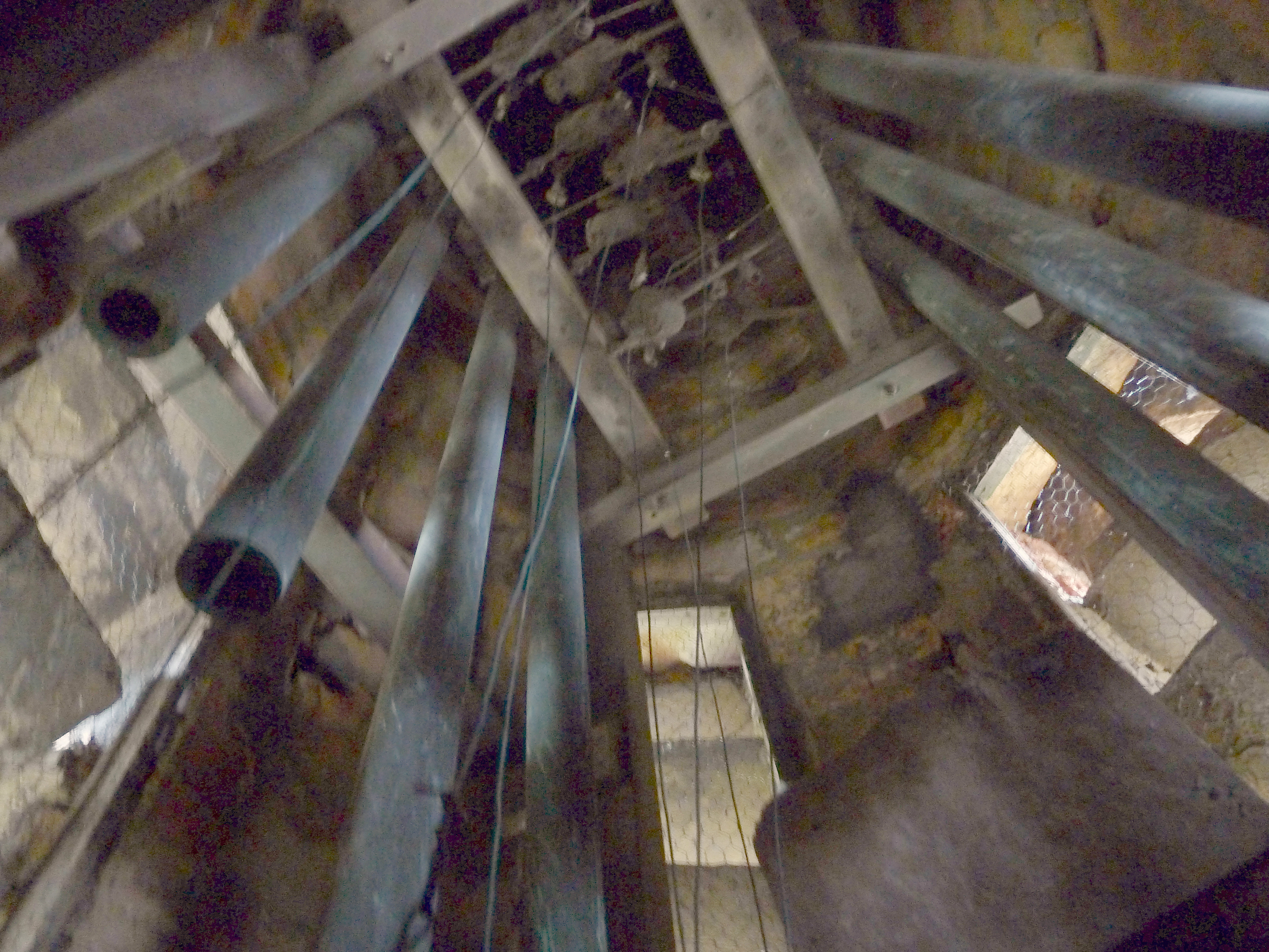 Interior of Church of All Saints, Otley Road, Harlow Hill, Harrogate, North Yorkshire, England. It is the cemetery chapel in Harlow Hill Cemetery, and was designed in 1870 by architects Isaac Thomas Shutt and Alfred Hill Thompson. Natural-light image of the carrillon of 8 tubular bells in the belfry of the tower. It was important to get a natural-light image of the belfry, to show up the louvred windows (flash photography masks these). The louvred windows are proof that this is the belfry, so that it can be seen that the original bell is no longer in place. Note: It was necessary to get a natural-light image of the belfry (see above), but this is a dark place, so that the quality is affected. The image was achieved by taking a black image with flash forced off, then digitally editing it by increasing gamma until this picture appeared. This image is probably irreplaceable, since there is no public access here.